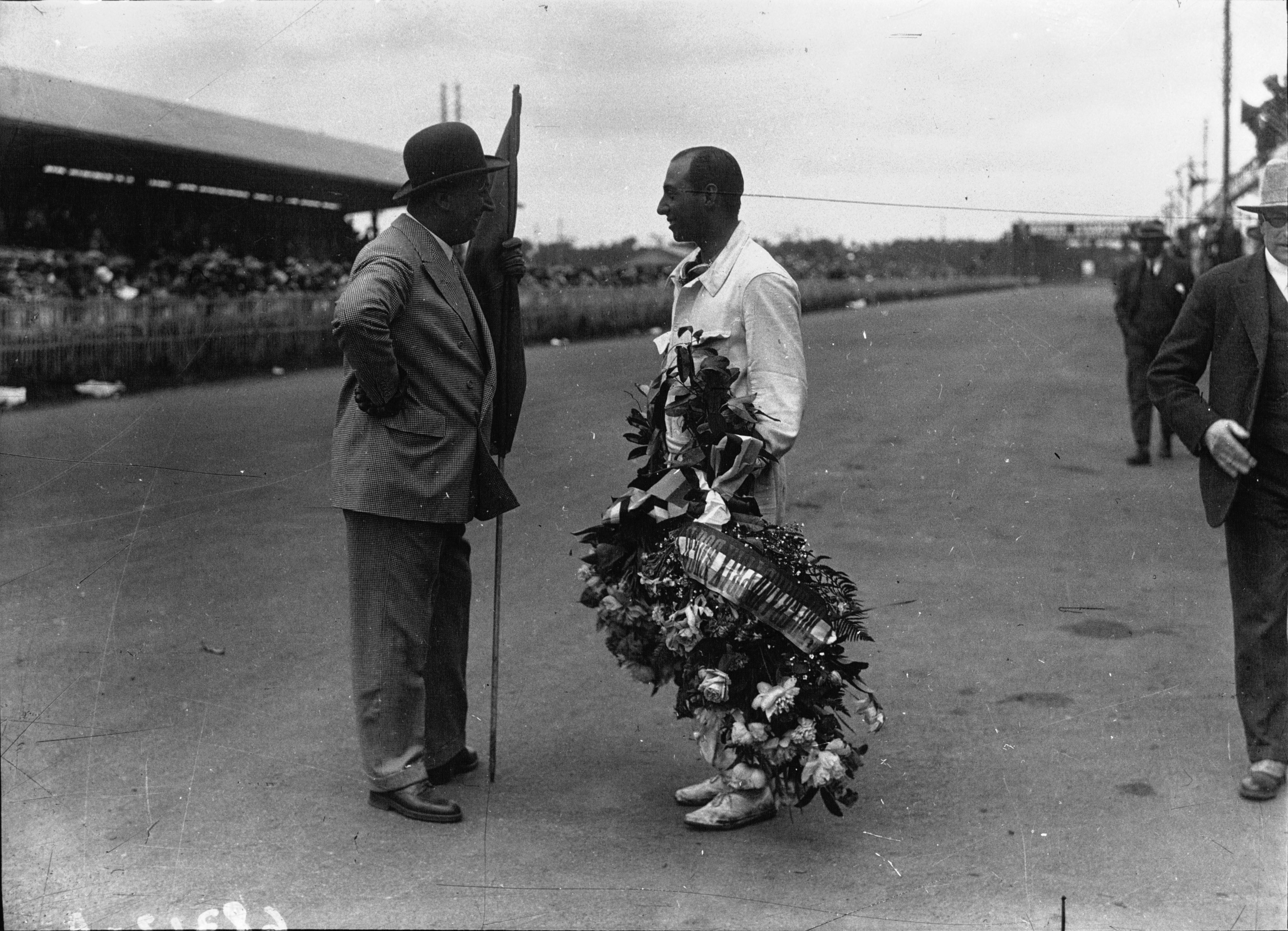 Juan Zanelli at the 1929 Bugatti Grand Prix after his victory